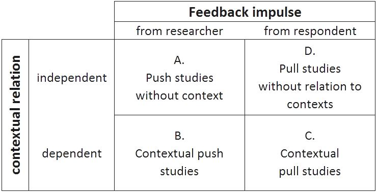 Mobile marketing research - Methods